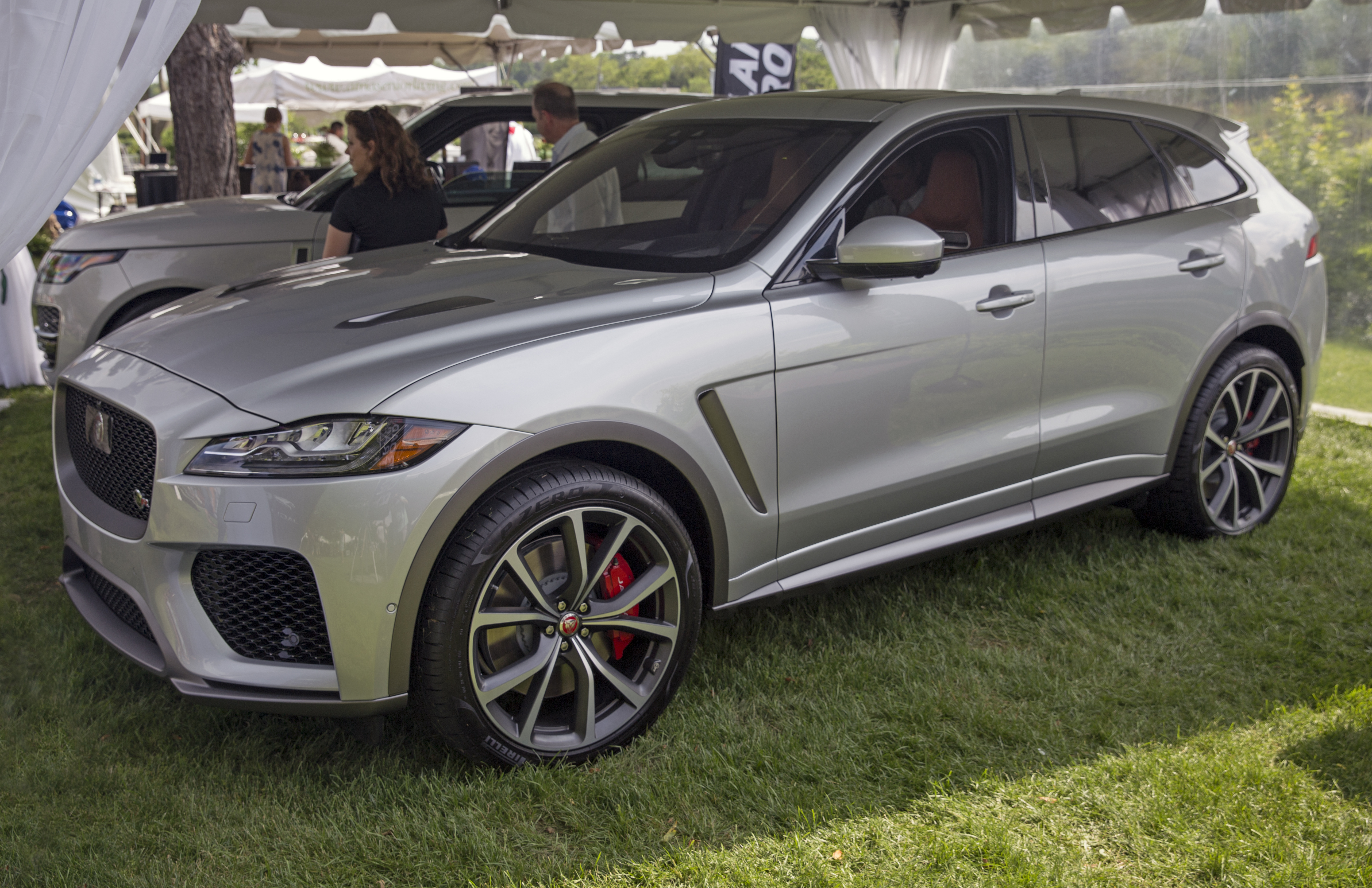 2019 Jaguar F-Pace SVR displayed at the 2018 Greenwich Concours d'Elegance.